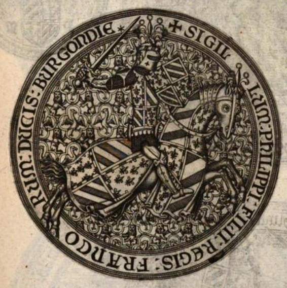 Philip II, Duke of Burgundy